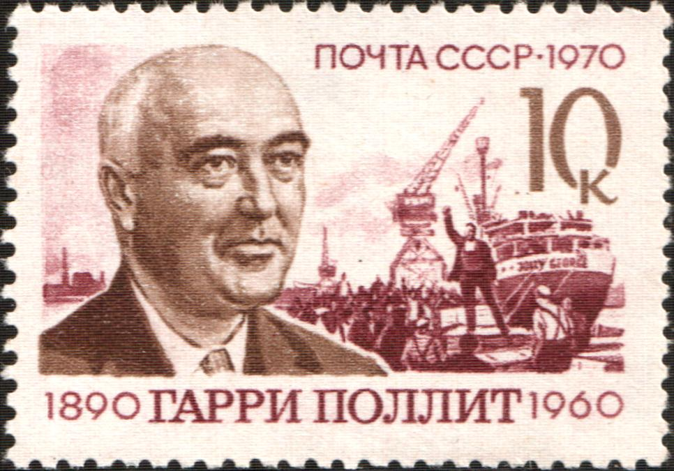 USSR stamp: Harry Pollitt and Freighter “Jolly George”. Series: 80th Birth Anniversary of Harry Pollitt (1890–1960) (British Communist)